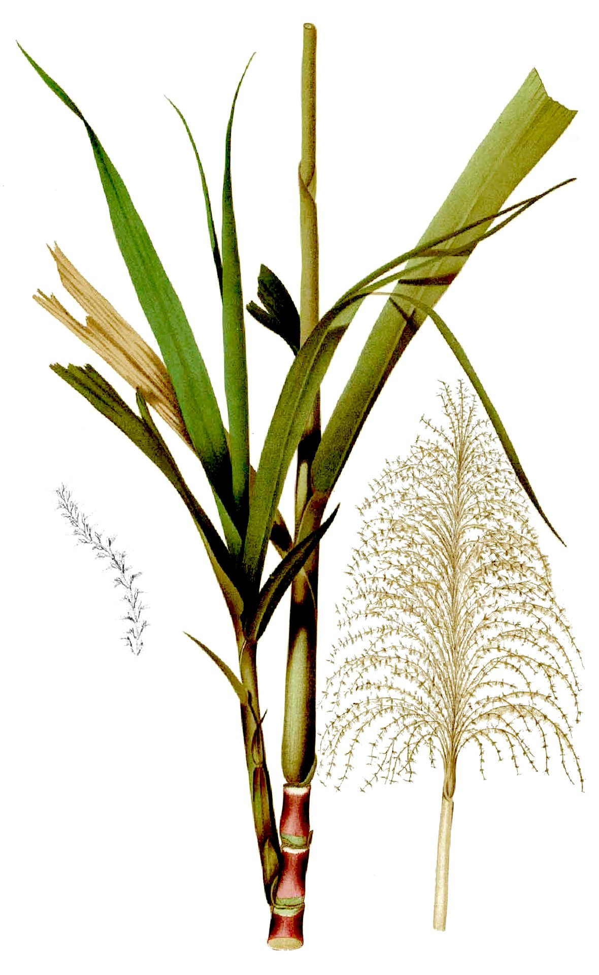 Plate from book